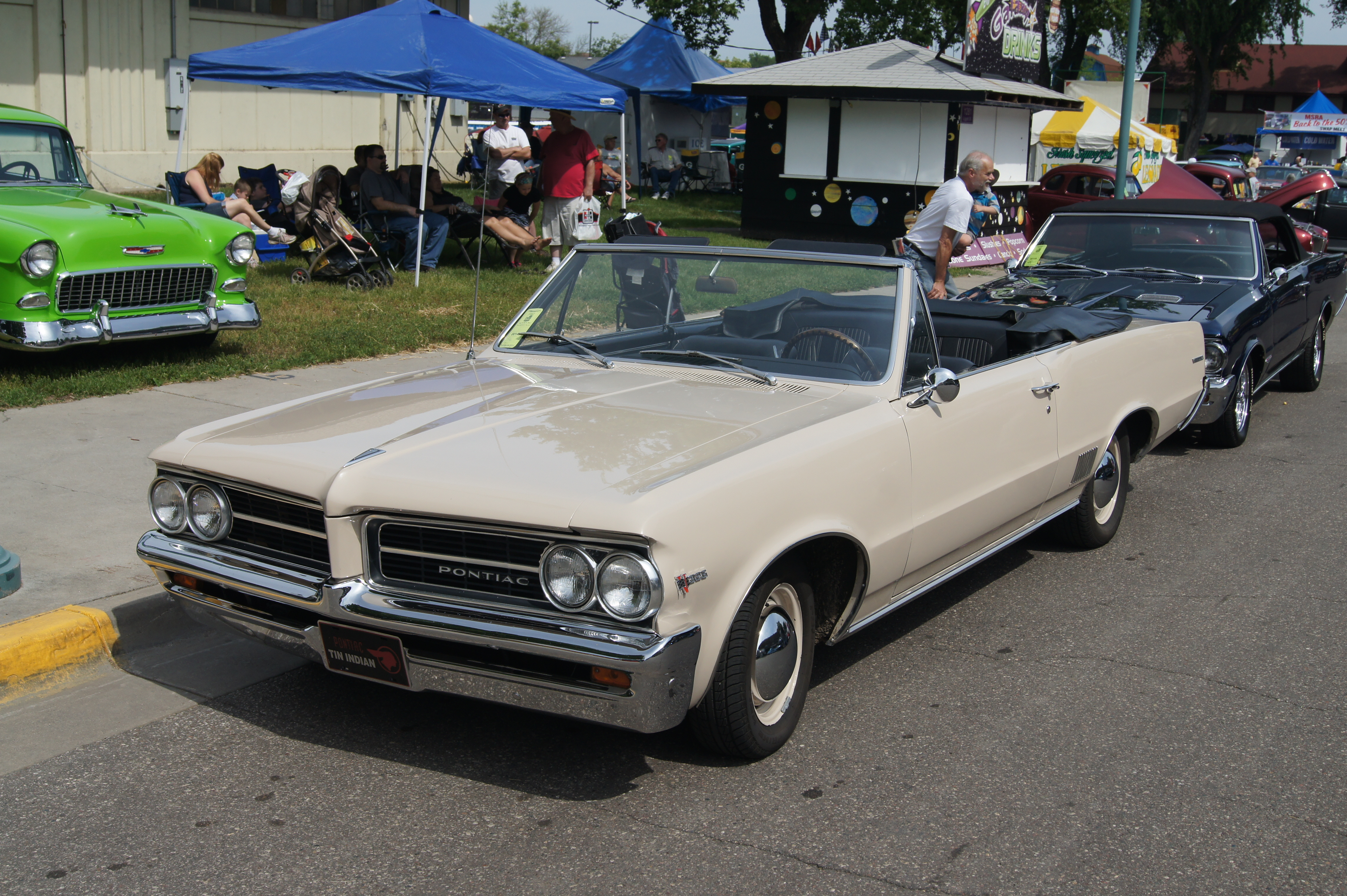 MSRA “BACK TO THE 50′s” 42nd Annual June 19-21, 2015 State Fairgrounds St. Paul Minnesota Click here for more car pictures at my Flickr site.